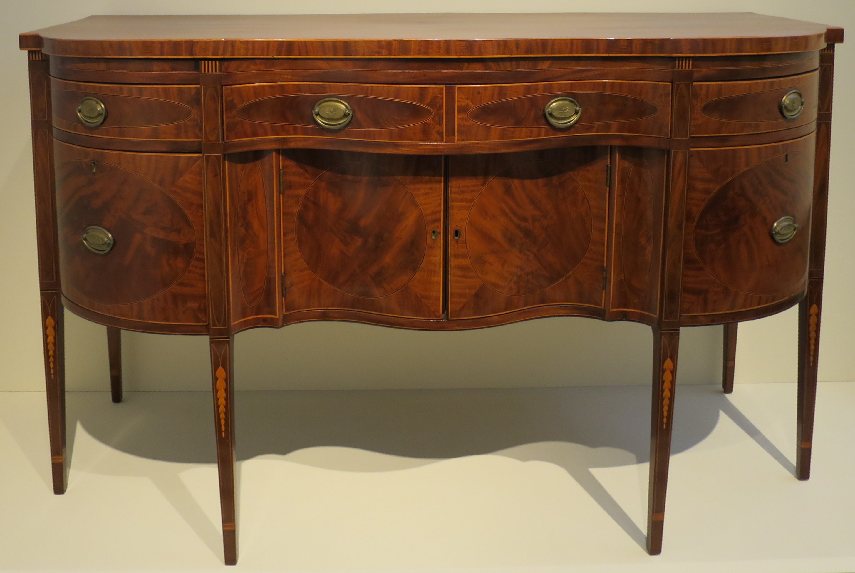 American sideboard, late 18th century, mahogany with wood inlays, Honolulu Museum of Art, accession 3407.1